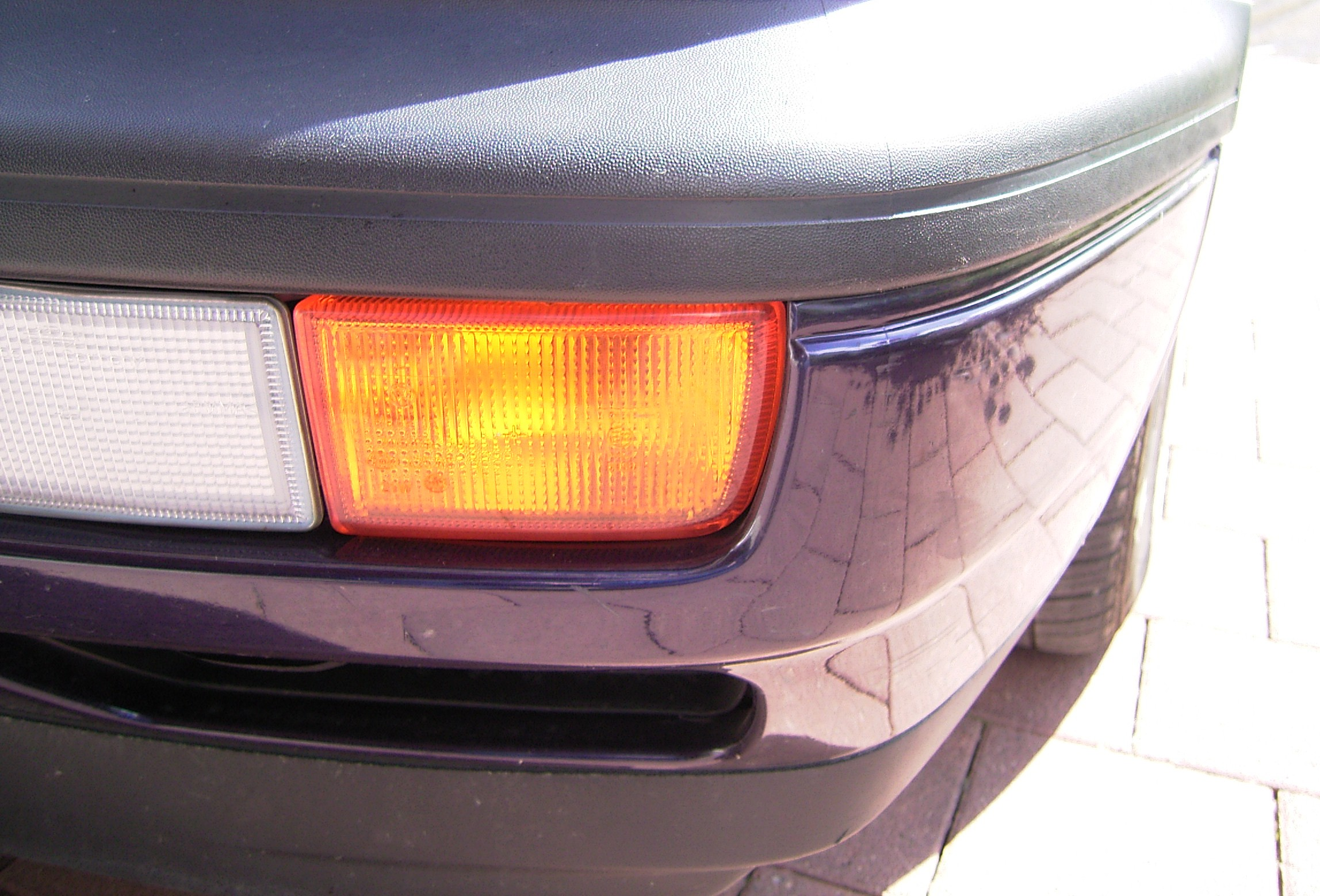 Automotive turning lights of a VW Golf Variant